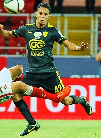 Leonardo da Silva Souza